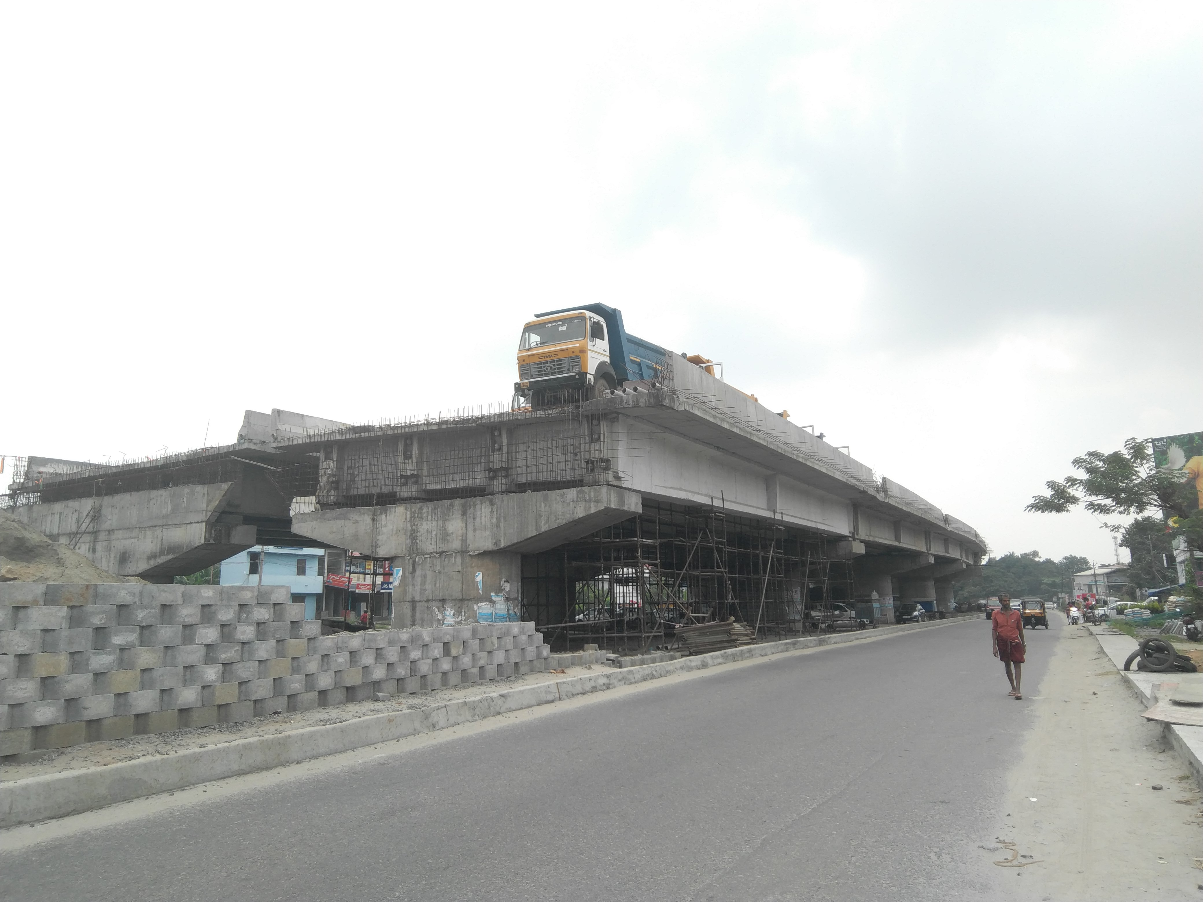 Mannuthy-Nadathara flyover above NH47 under construction